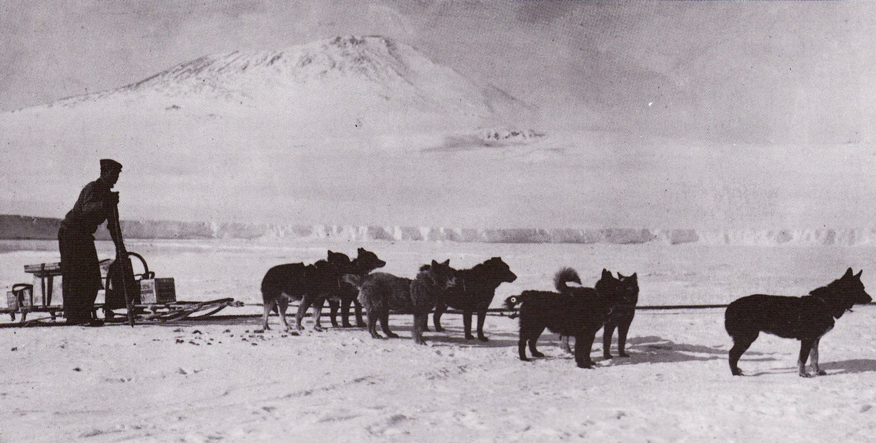 Some of the Terra Nova Expedition's sled dogs attached to a sled.